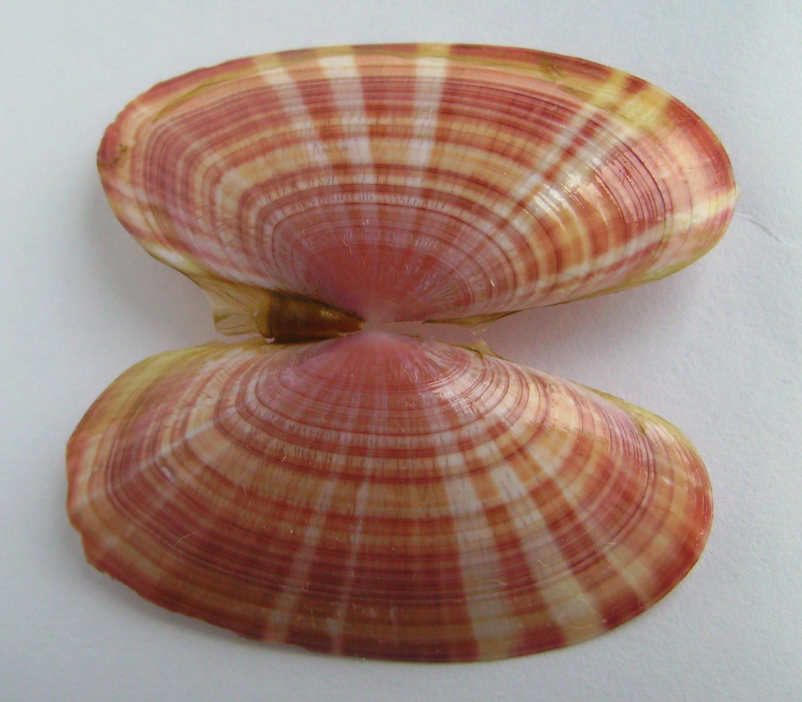 Gari convexa dredged from Northland east coast, New Zealand. This work has been released into the public domain by its author, Graham Bould. This applies worldwide.In some countries this may not be legally possible; if so:Graham Bould grants anyone the right to use this work for any purpose, without any conditions, unless such conditions are required by law.